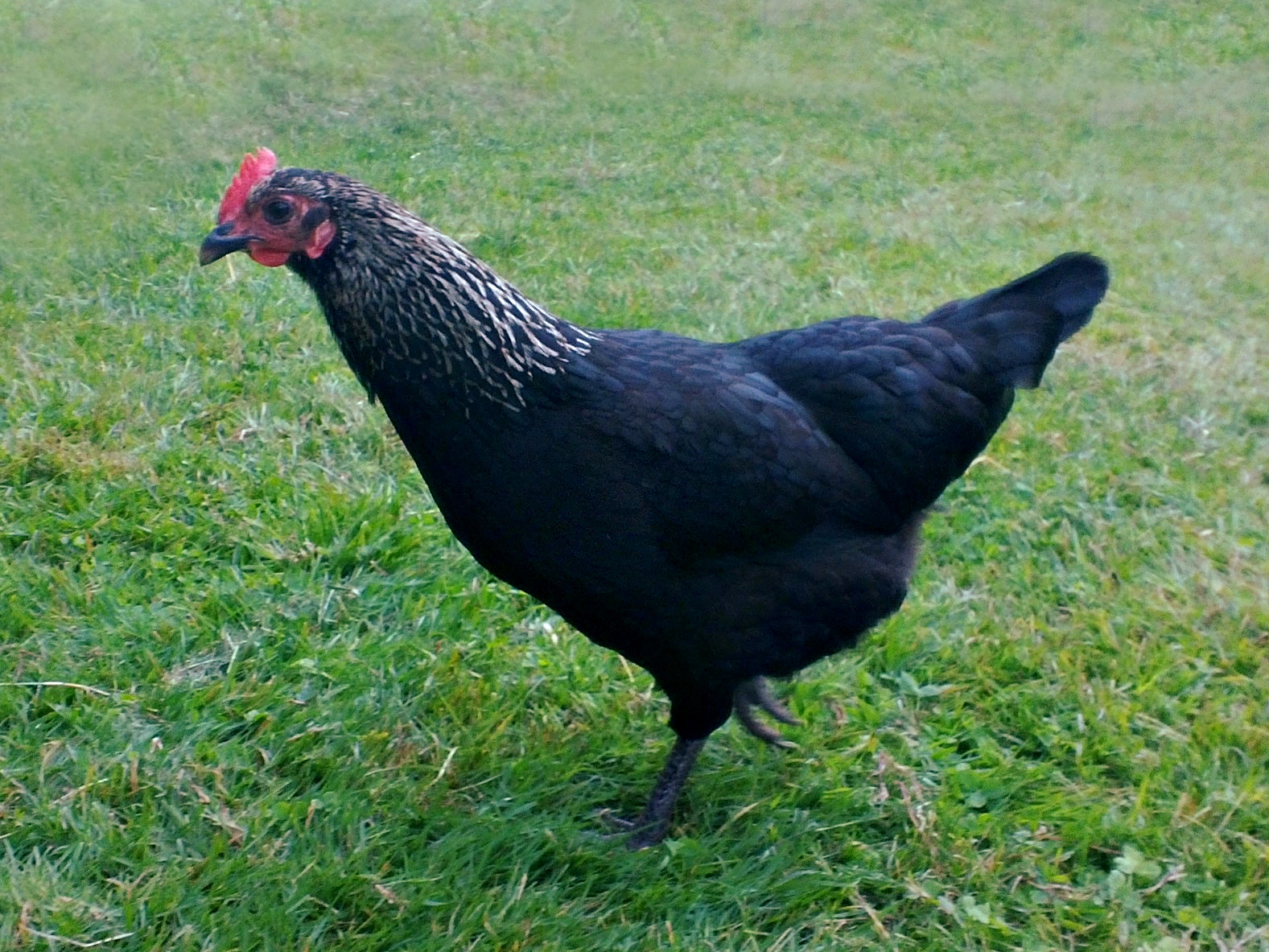 14 month old Norfolk Grey hen. Norfolk Grey is a rare utility breed developed in Norwich at the start of the 20th century.